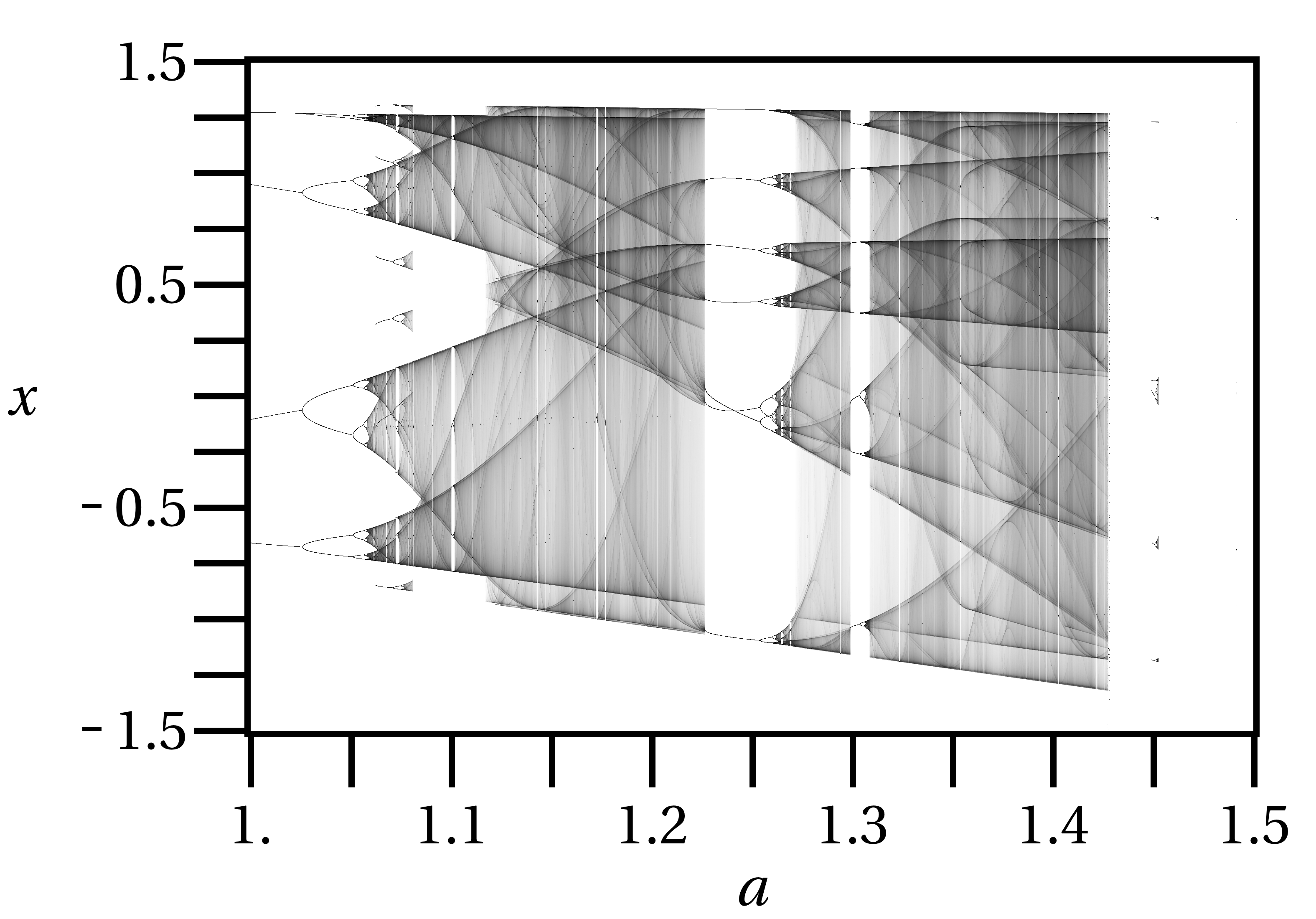 Henon bifurcation diagram with b = 0.3. The image was created using Mathematica by determining the value of a for each pixel (i.e., the width in a space for each pixel). This width was subdivided into 7 parts where each of the seven parts corresponded to the same pixel column but had slightly different values for a. For x the starting value depended on which of the 7 values for a was used in that pixel column. The x range (-1.5 to 1.5) was divided into 7 equidistant values, For each value of x, 7 distinct values for y were selected to obtain a broad range of starting values. The process of subdividing each pixel column into 7 parts was repeated for each pixel column in the map (2400 times). After throwing away the first 2000 iterations, the next 1,000,000 were used to create the plot. Each time a value fell into an [x,a] pixel, that pixel was incremented by 1. The max value allowed for each pixel was 350,000. After each pixel column was calculated, the column was divided by the maximum value in that column (could be less than 350,000) to get a scale from 0 to 1. Axis were then added to the final map. Altogether 112,000,000,000 iterations were used to generate this map. Calculation time was approximately 2.5 hours.